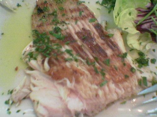 Cooked skate wing.